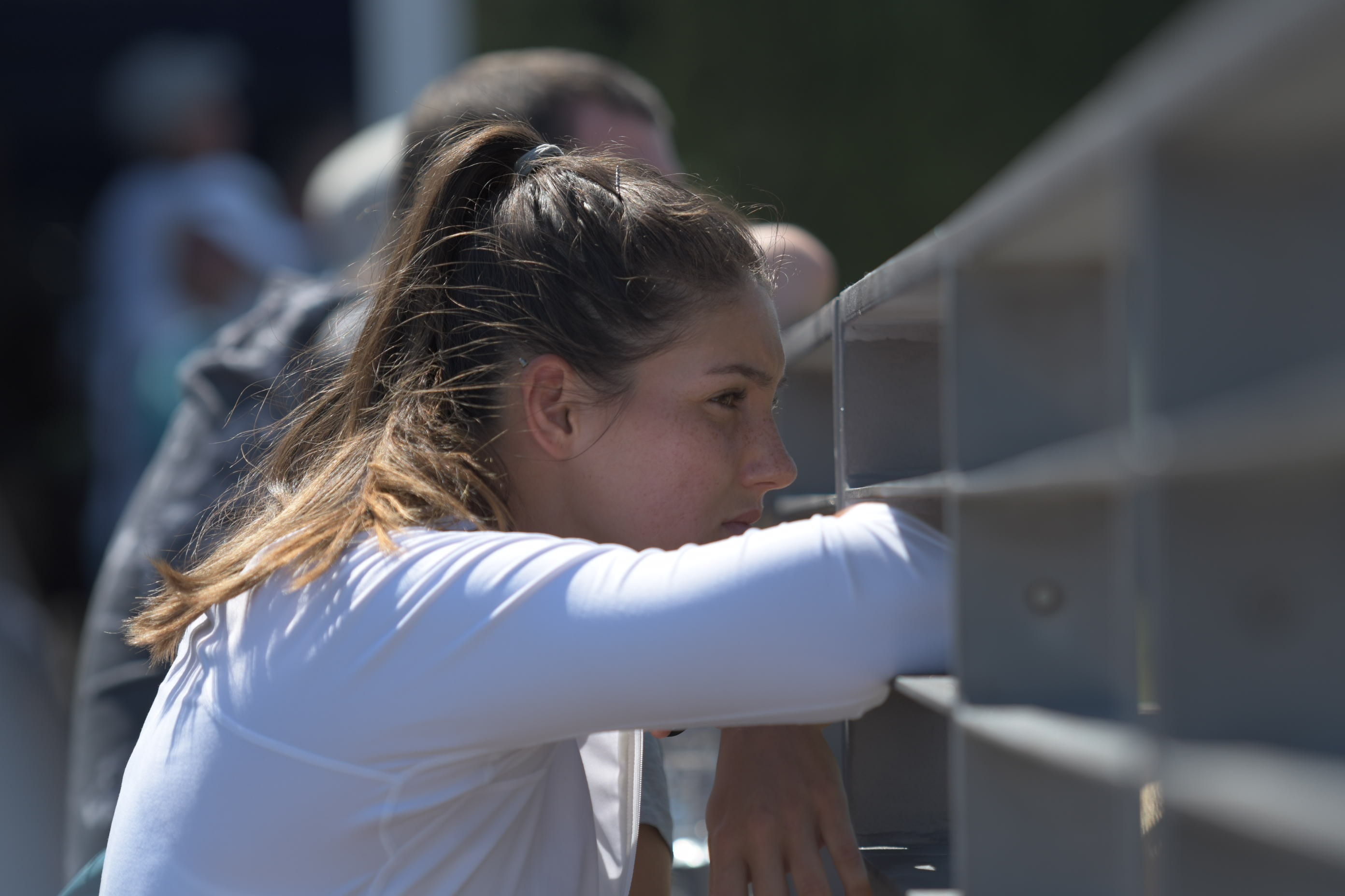 Ipek Soylu at the 2017 Aegon Classic Birmingham